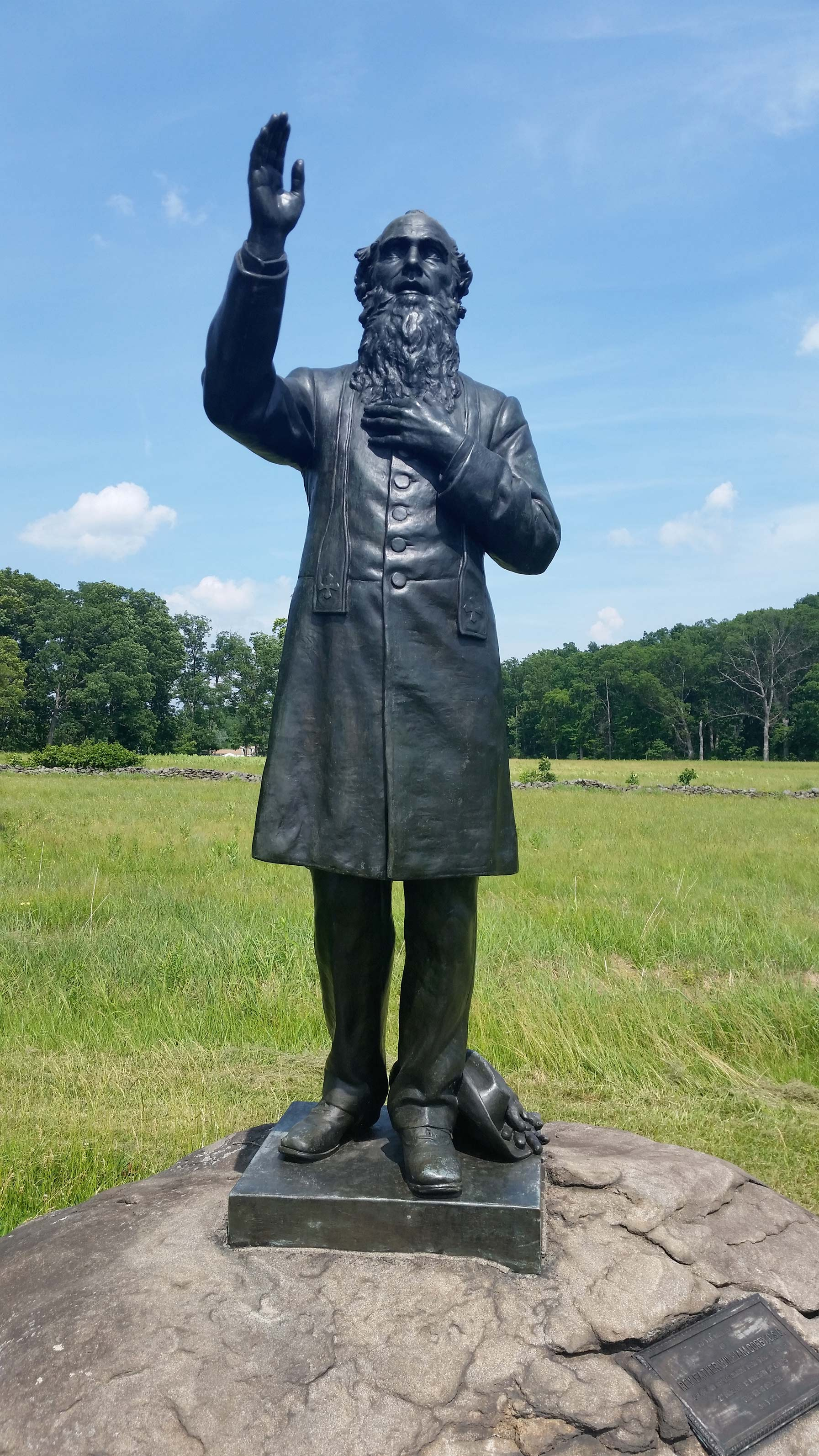 Memorial of Father William Corby within the Gettysburg National Military Park